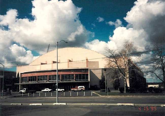 Spokane Coliseum several months before demolition. In the background (on the left side of the photo), you can see the Spokane Veterans Memorial Arena, which replaced the Coliseum, under construction.